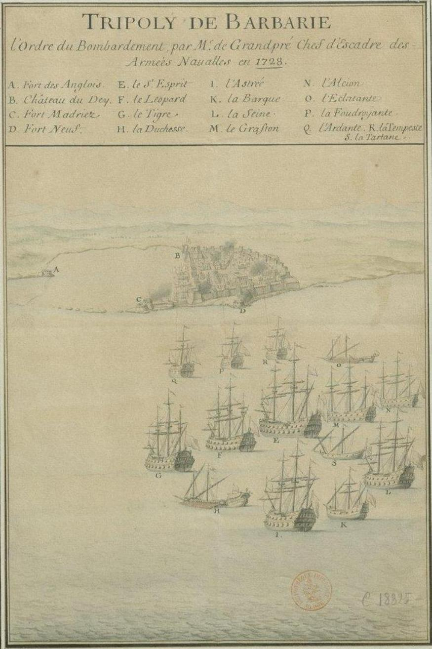 Bombing of Tripoli in 1728 by a French squadron.